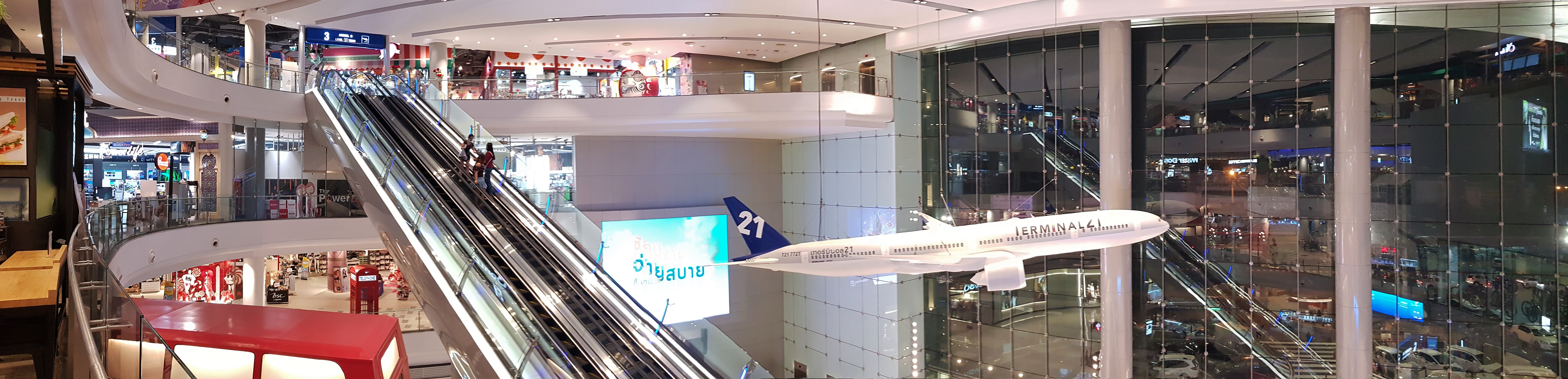 Terminal 21 Korat